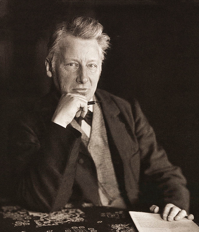 Portrait of Jacobus Henricus van 't Hoff, seated, looking into camera.